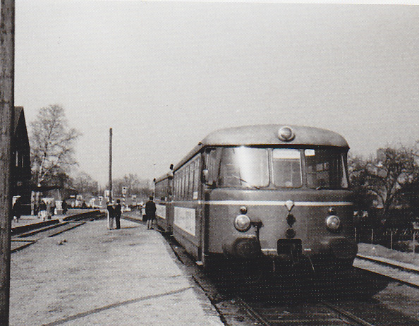 MAN Train, AKN Railways